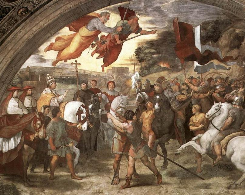 Raphael's The Meeting between Leo the Great (painted as a portrait of Leo X) and Attila Fresco, 1514, Stanza di Eliodoro, Palazzi Pontifici, Vatican [1]